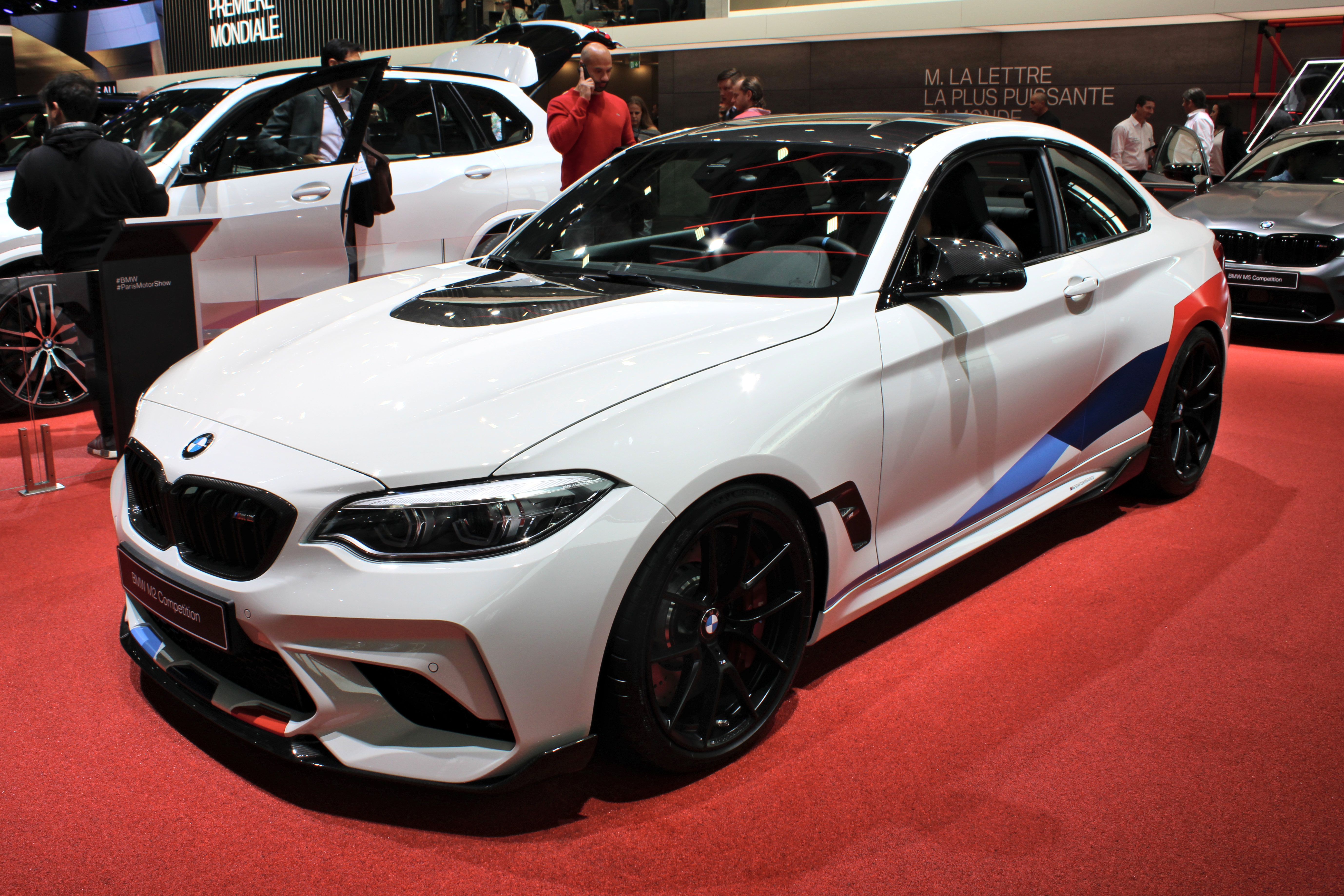 BMW M2 Competition at Paris Motor Show 2018